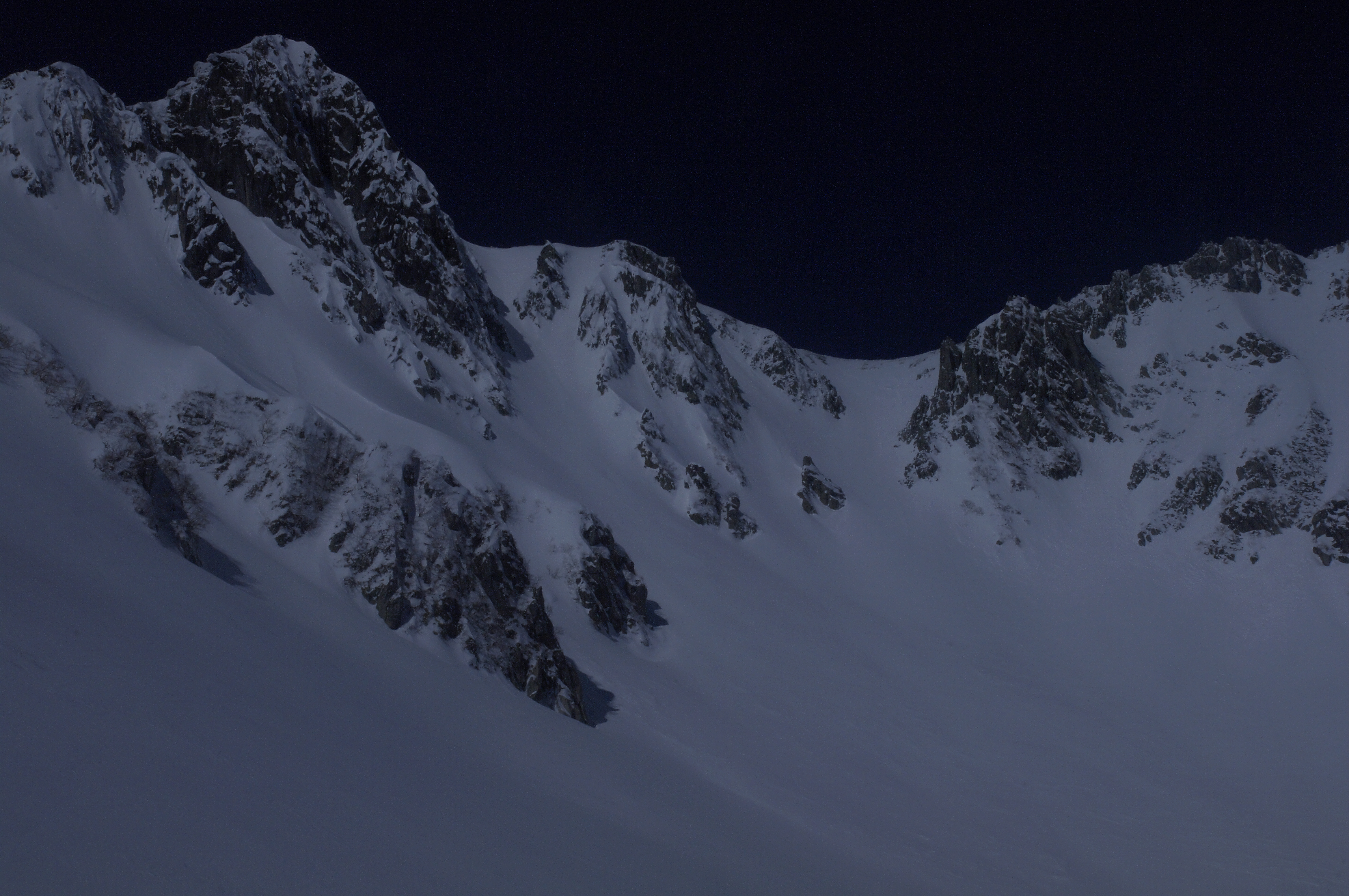 Winter in Mount Hoken and Senjojiki Cirque in Nagano Prefecture, Japan. Taken without exposure compensation